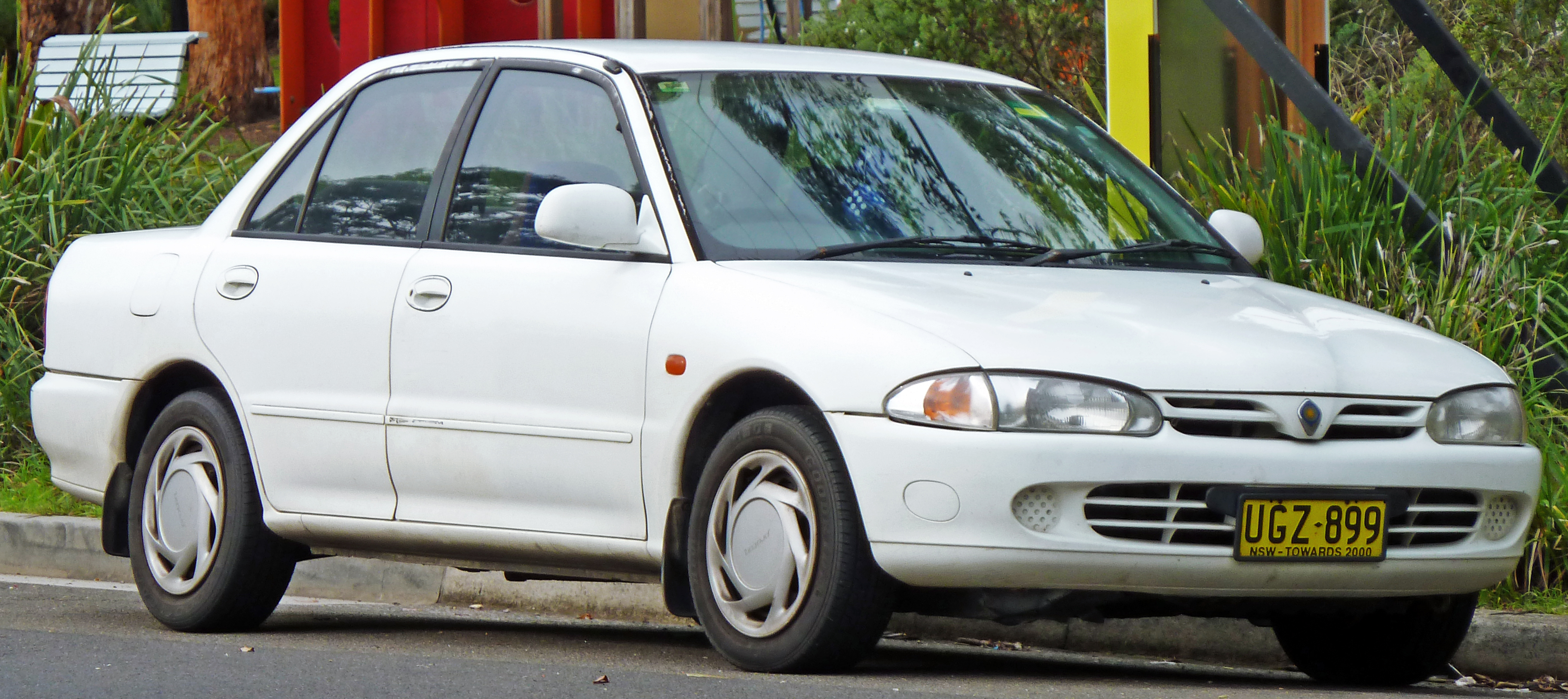 1996 Proton Wira (C90) XLi sedan. Photographed in Sylvania, New South Wales, Australia.